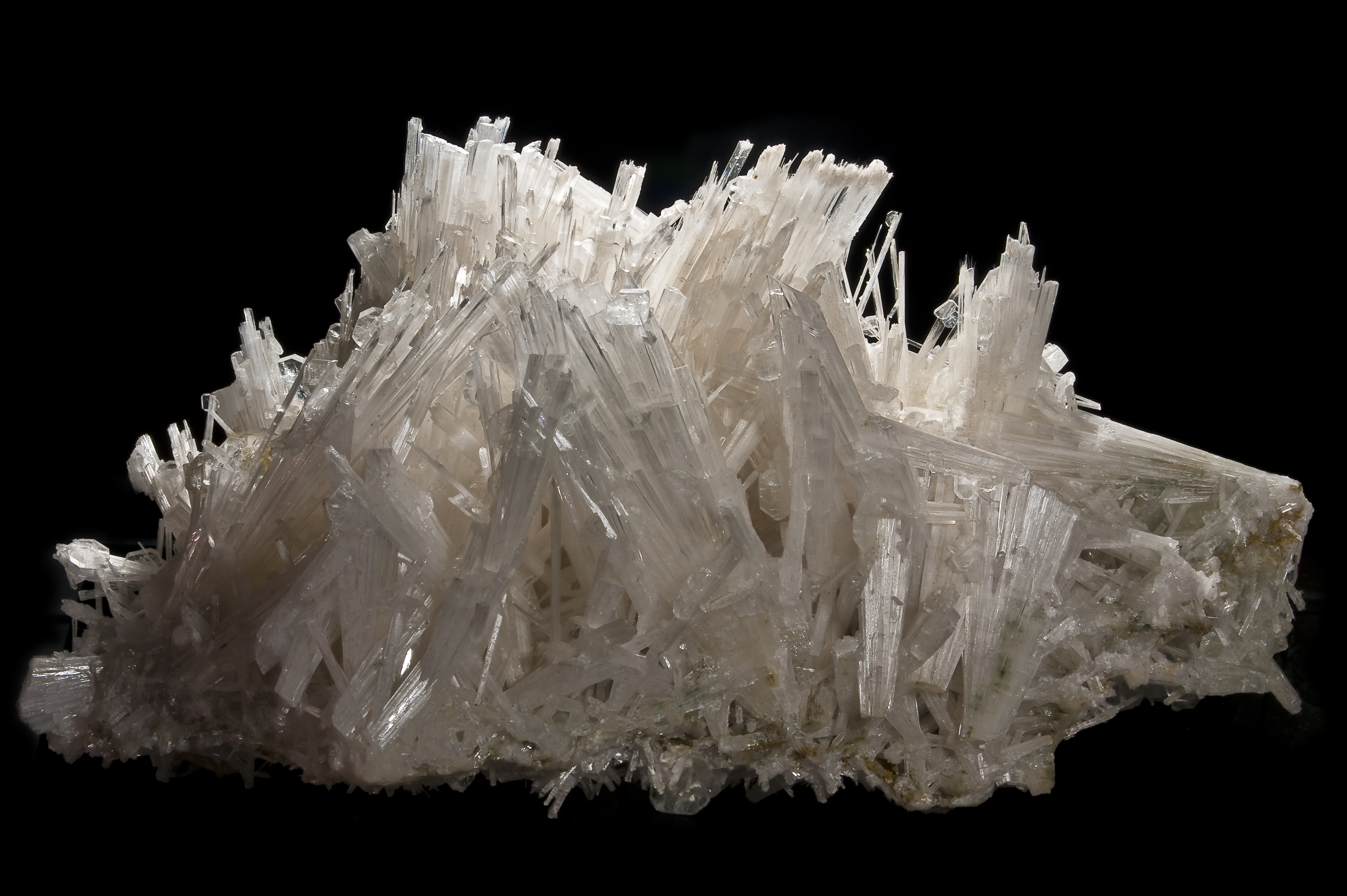 Scolecite and apophyllite Locality: Jalgaon District, Maharashtra, India Size : 20 x 11 x 10 cm